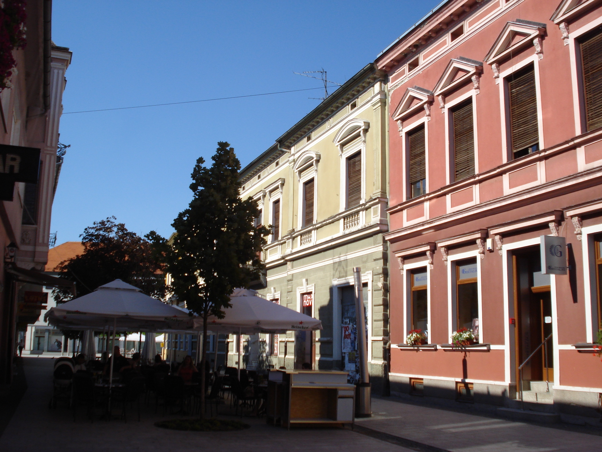 The Town of Čakovec, Croatia - Bishop Josip Juraj Strossmayer Street, eastern side